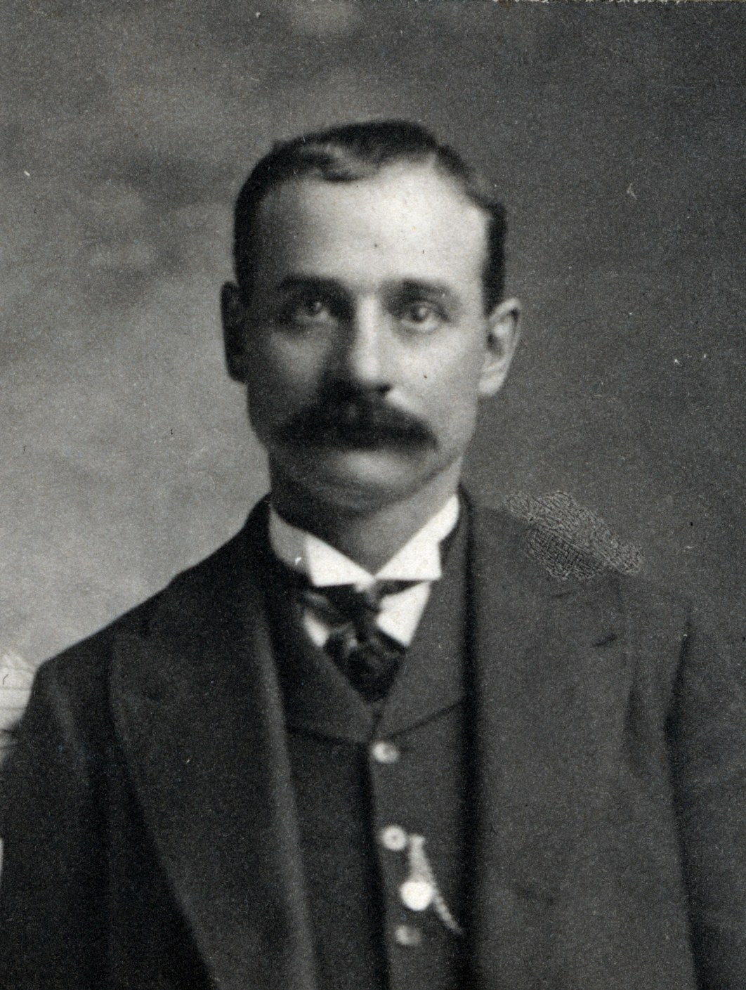 Annie Rogers (also known as Della Moore) and Harvey Logan, half-length portrait, facing front